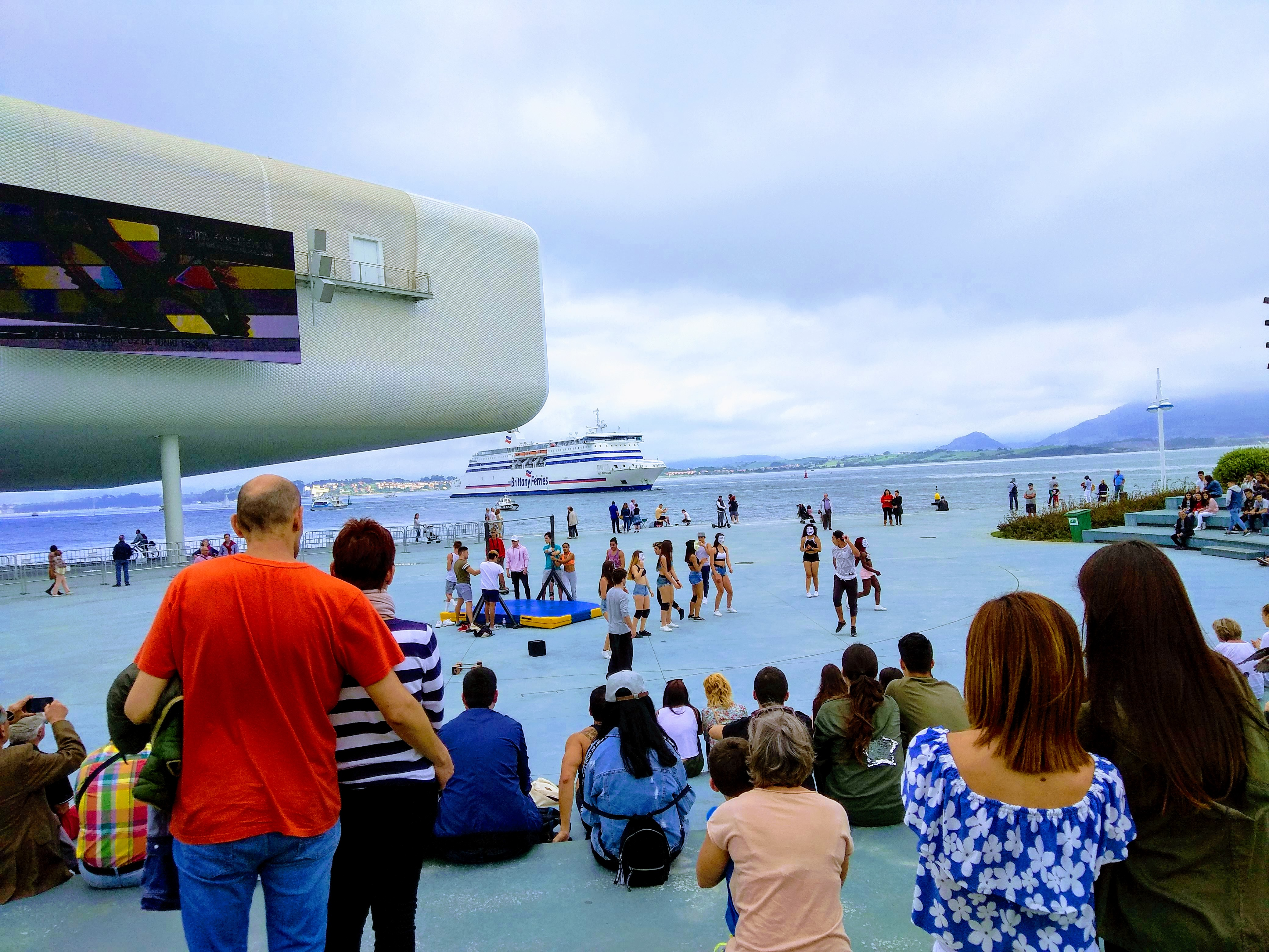 Exterior square of the Botín Center, in the Pereda Gardens of Santander (Cantabria, Spain). In the background a ferry from the Brittany Ferries shipping company entering the port.